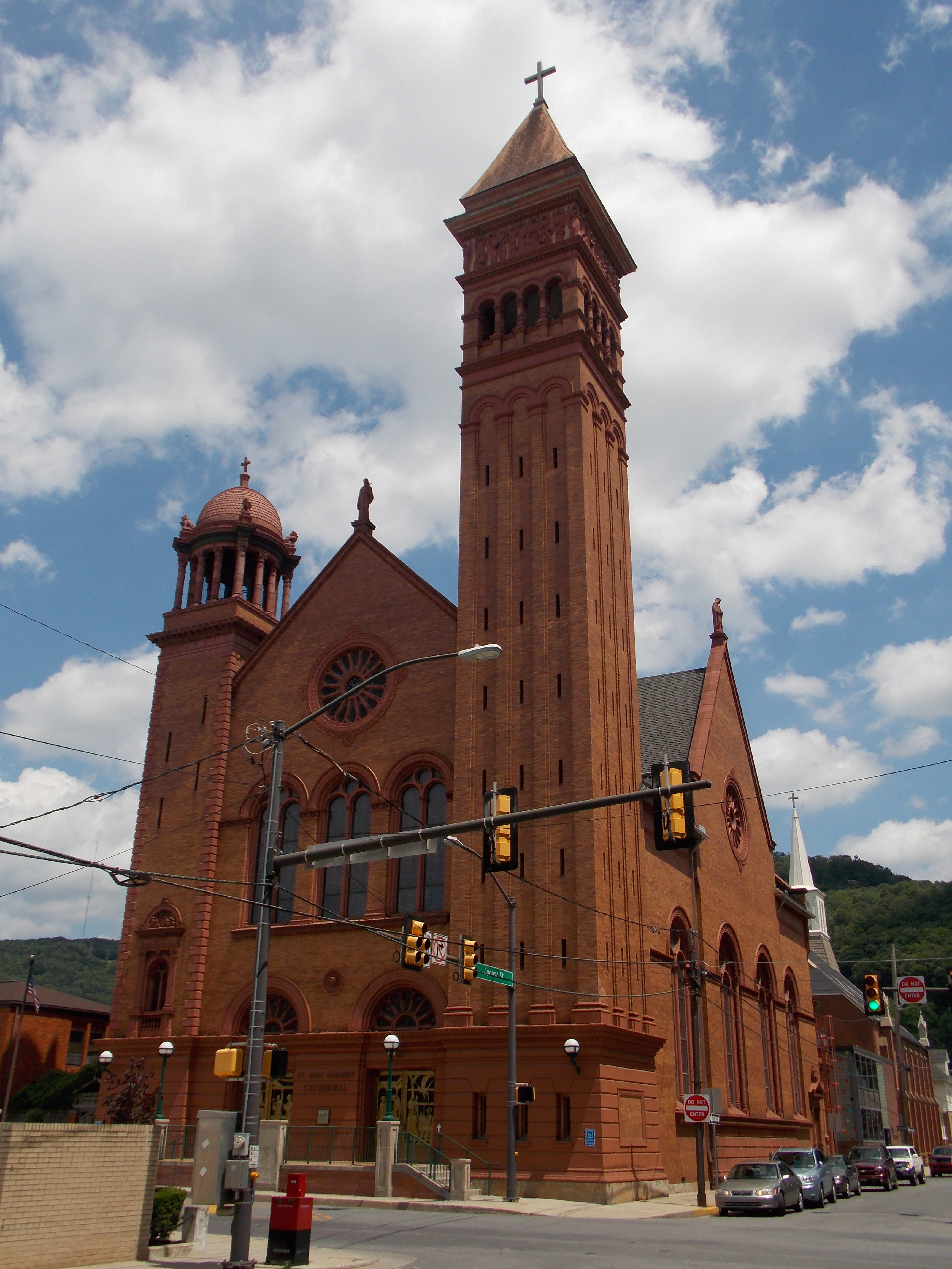 St. John Gualbert Cathedral in Johnstown, Pennsylvania.